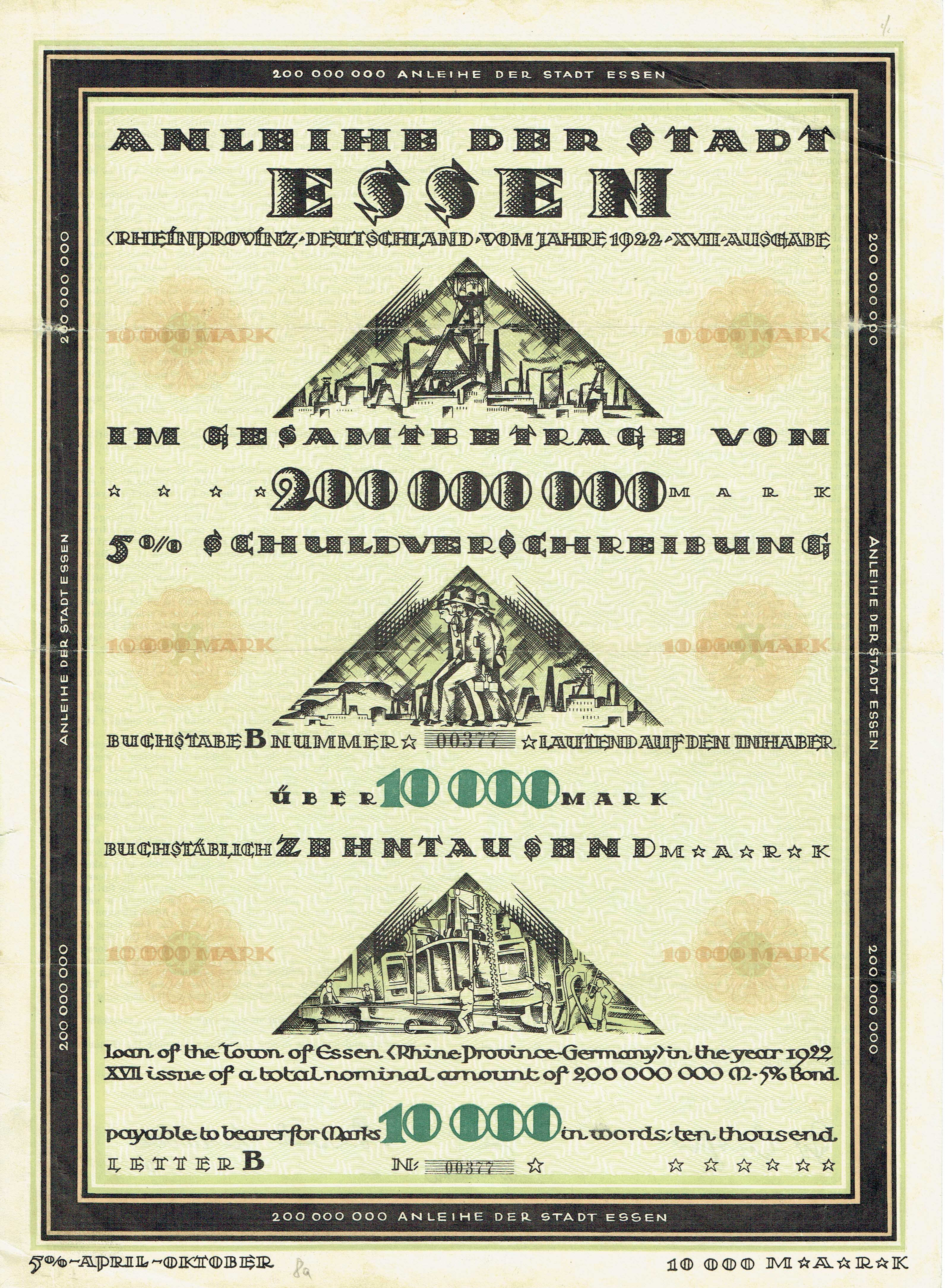 Bond of the City of Essen, issued 4. August 1922